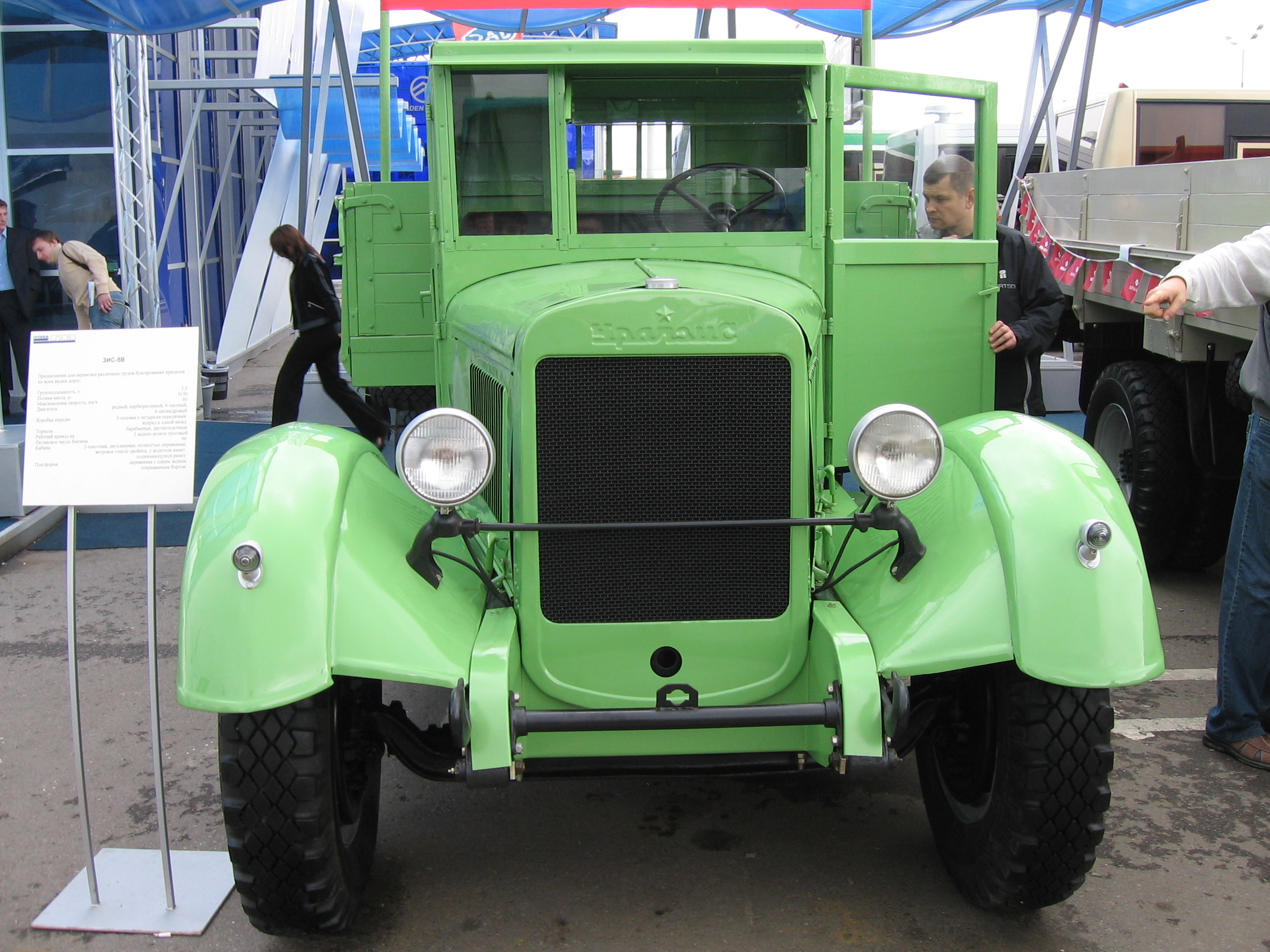 UralZis-5 produced after the WWII, not the ZiS-5V (different fenders) on the Moscow International Motor Show